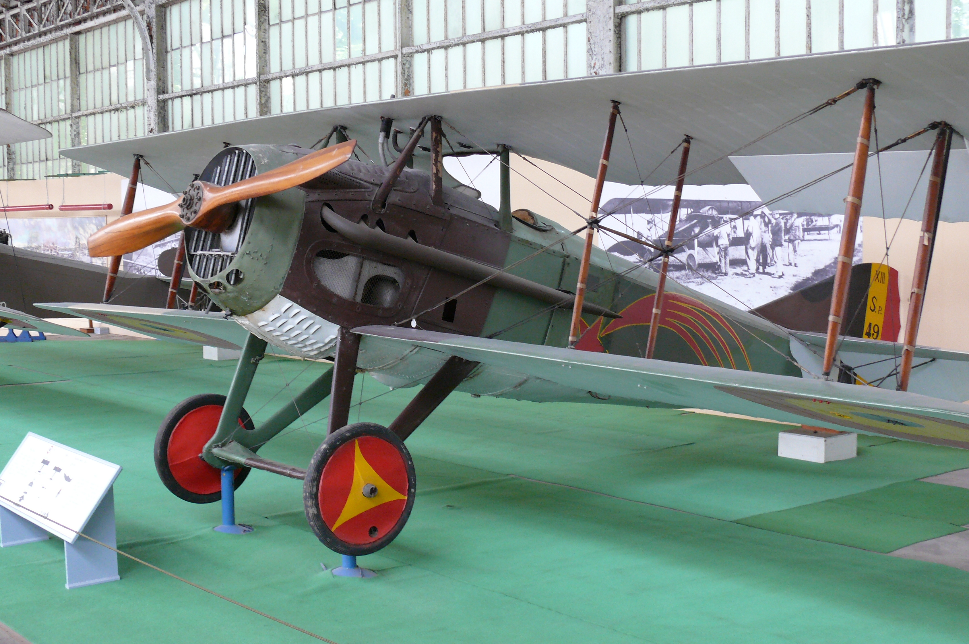 SPAD S.XIII in the Royal Military Museum at the Jubelpark, Brussels.